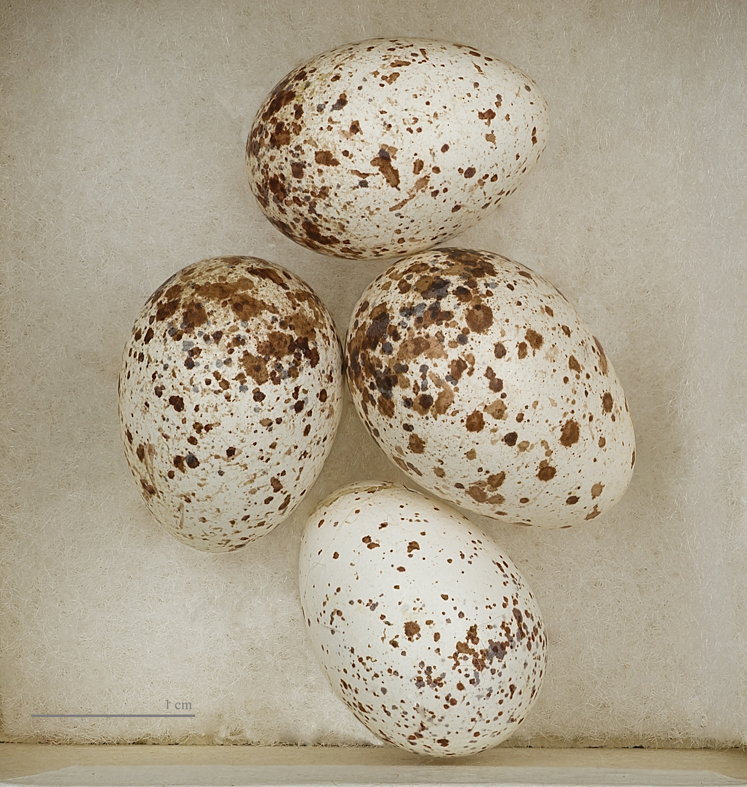 Egg of Wire-tailed Swallow. Collection of Jacques Perrin de Brichambaut.